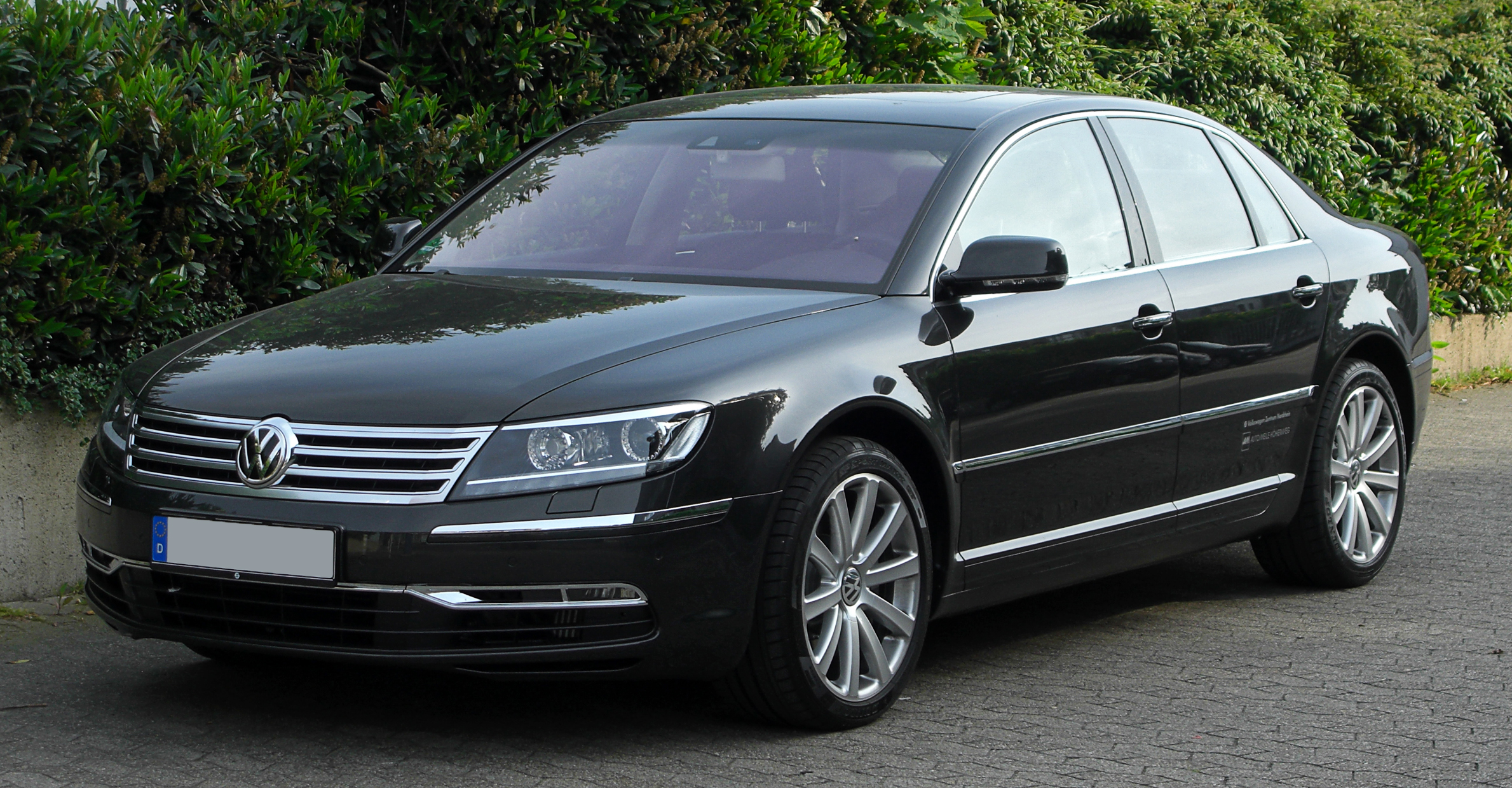 VW Phaeton (2. Facelift)